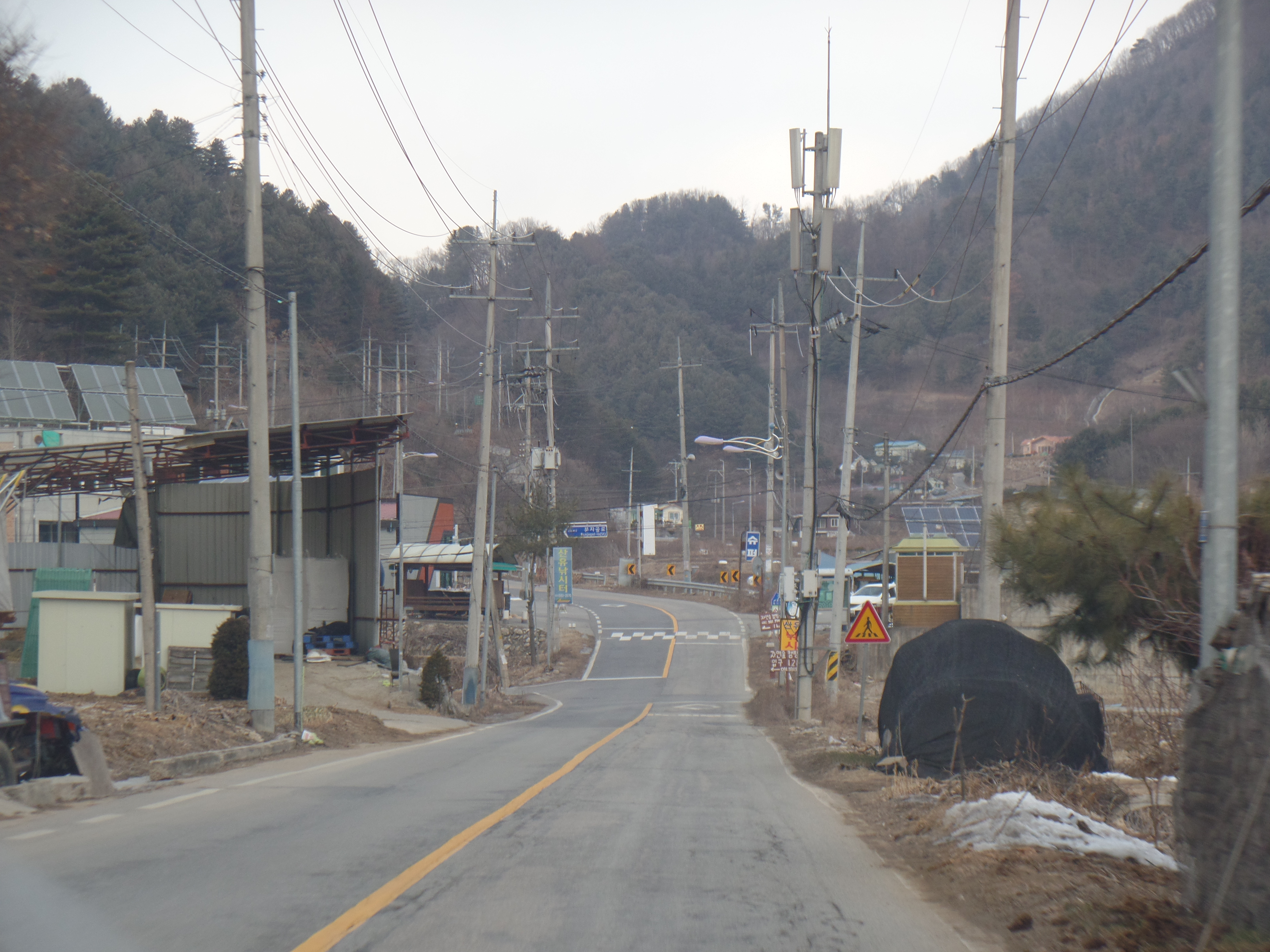 Republic of Korea National Route 75 Yudong Tway Intersection-Galchigogae(Northward Direction)